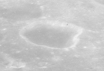 Oblique view of Crozier crater, facing south, on the moon.